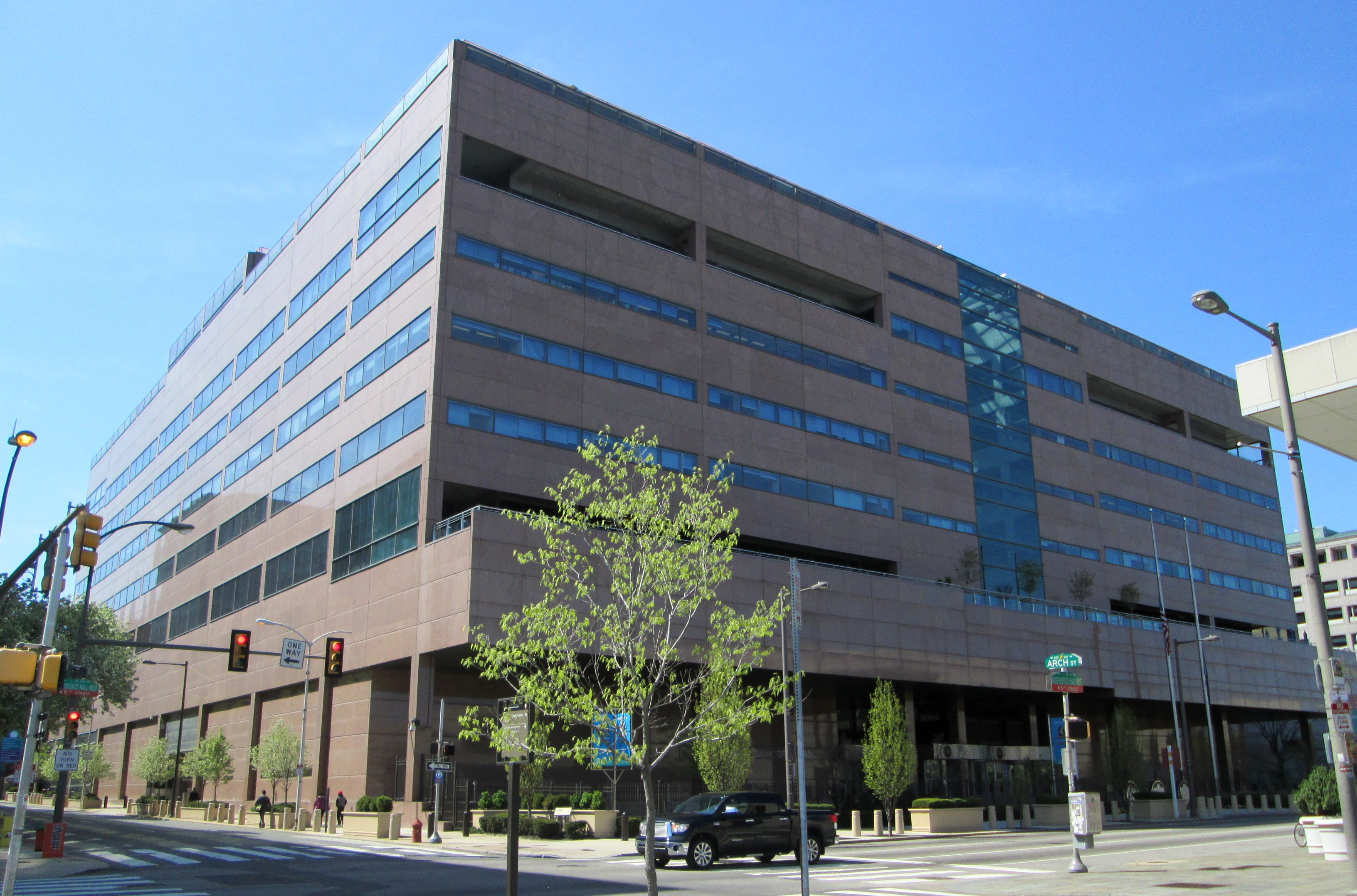 The Federal Reserve Bank of Philadelphia – headquartered at 10 N. Independence Mall West (N. 6th Street) at Arch Street, Philadelphia, Pennsylvania, with an additional entrance at N. 7th Street – is responsible for the Third District of the Federal Reserve, which covers eastern and central Pennsylvania, the nine southern counties of New Jersey, and Delaware.